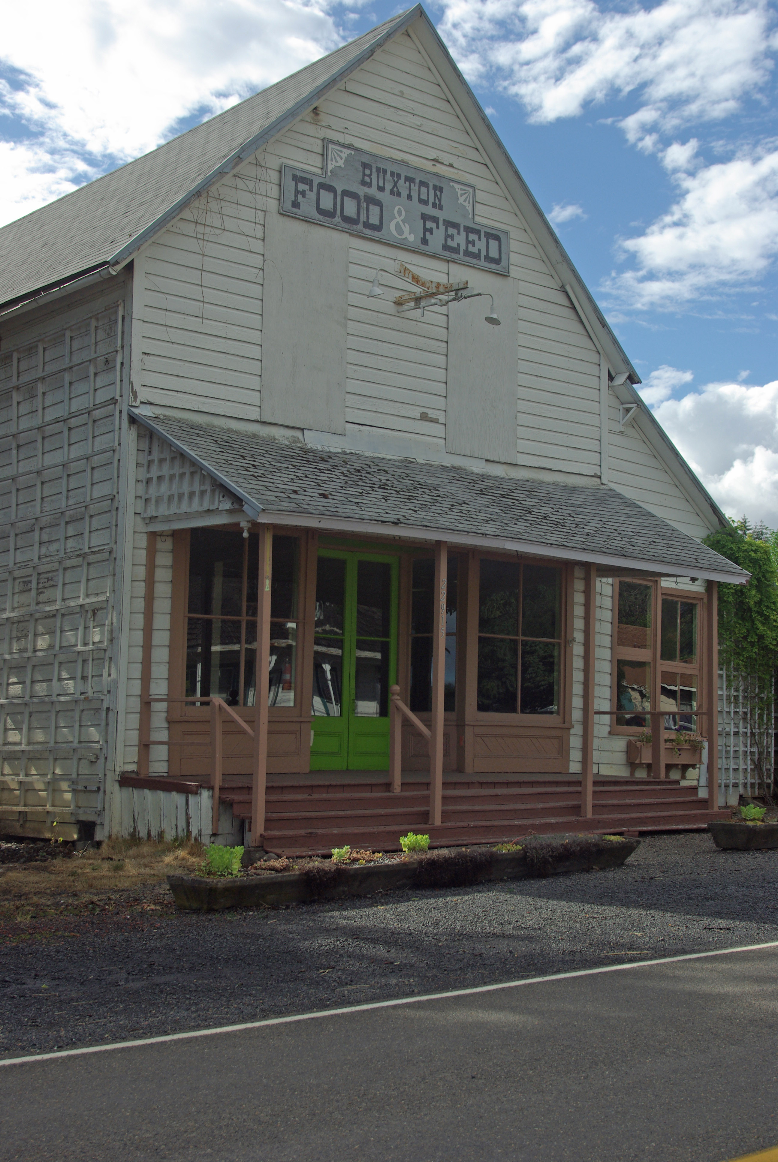 A store building in Buxton, Oregon taken in 2007